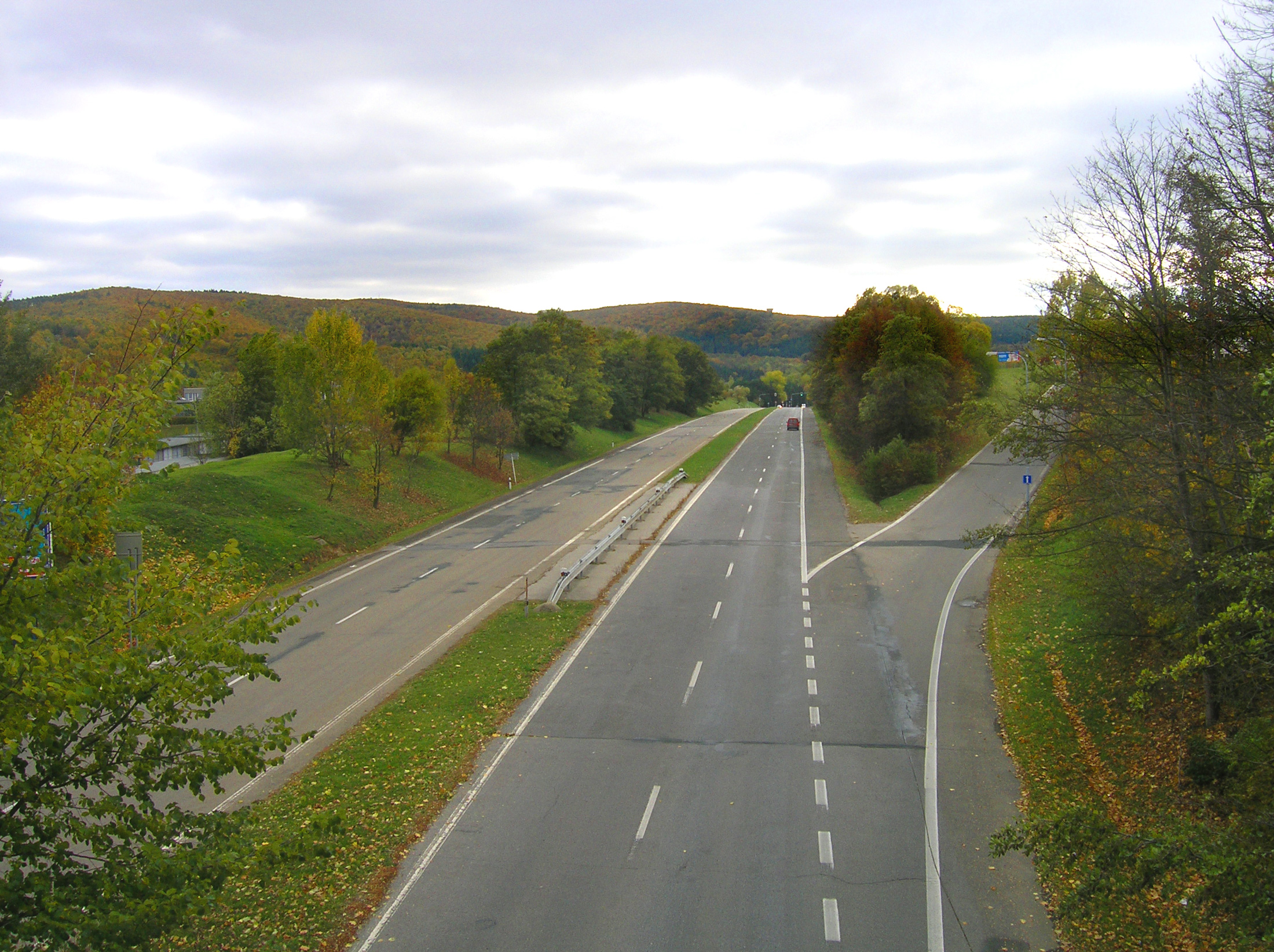 Stará dálnice street in Brno